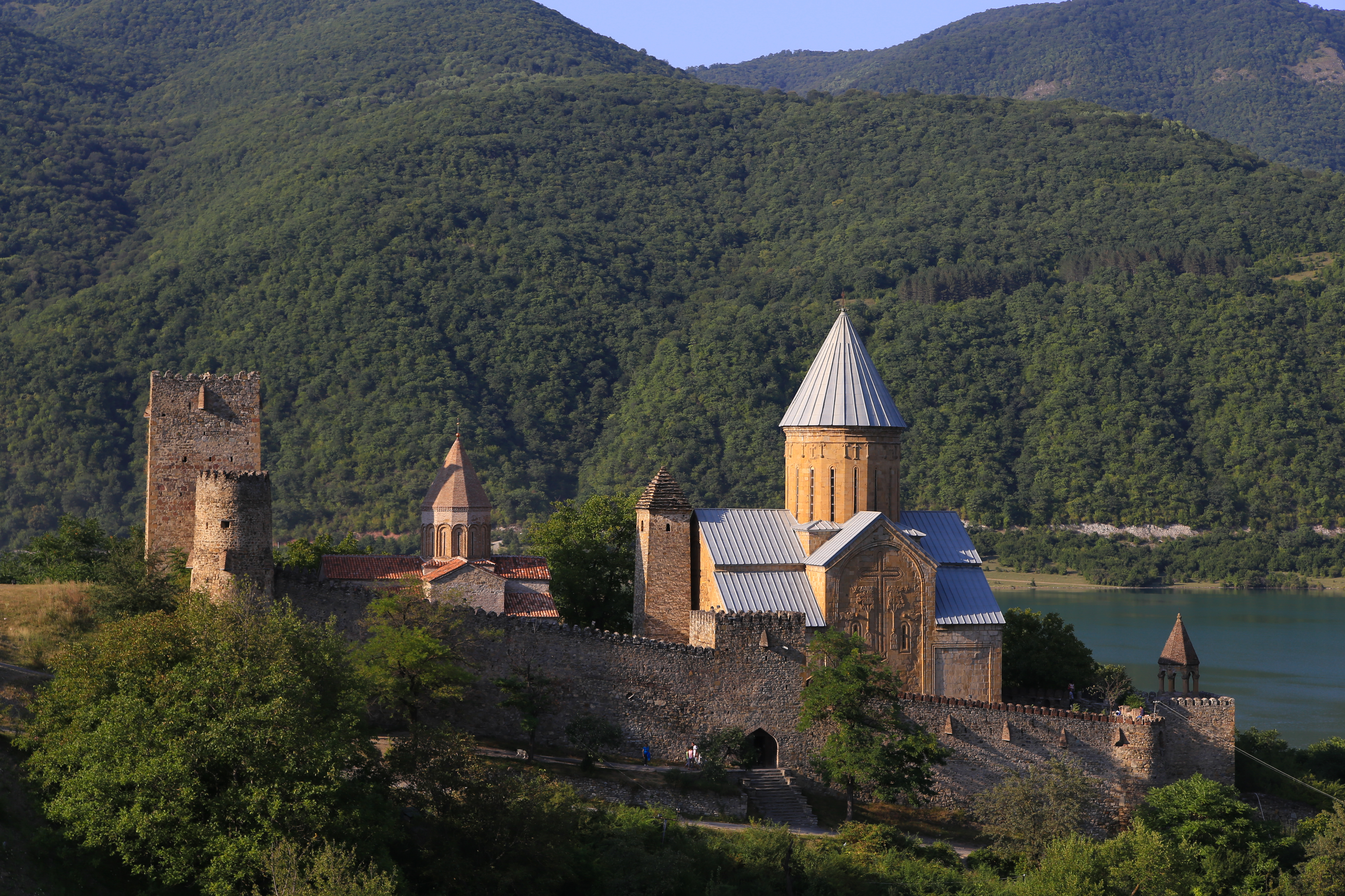 Ananuri, Georgia — Ananuri Fortess and Monastery